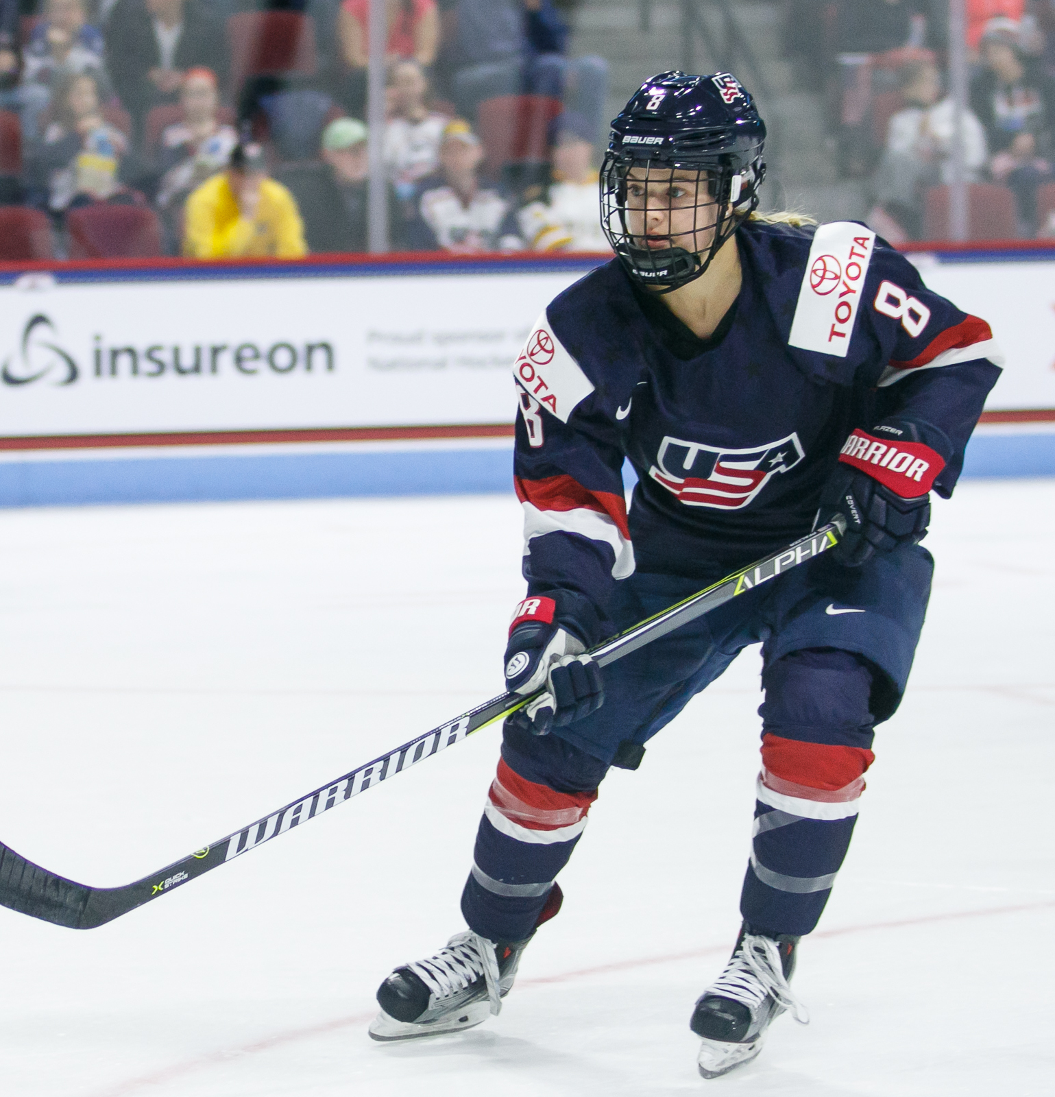 Team USA defender Emily Pfalzer (8)